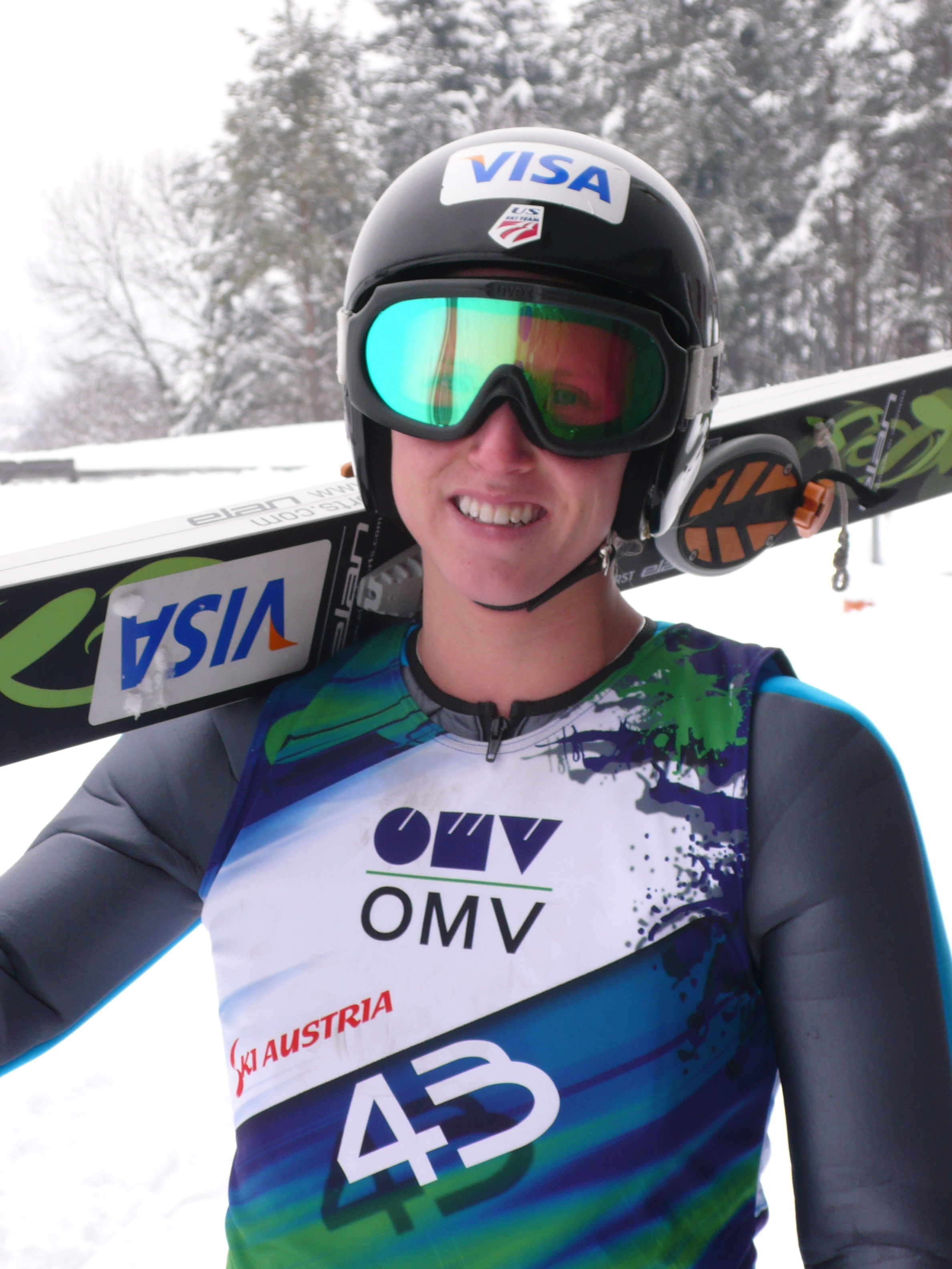 Alissa Johnson, at the Ski jumping Continental Cup in Villach on the 2010-02-12.